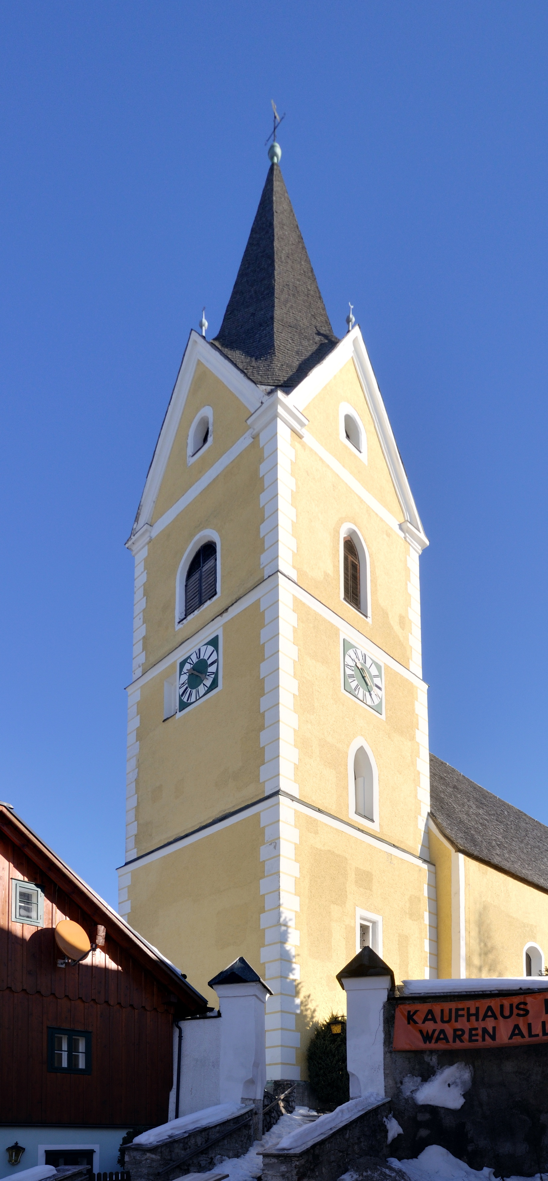 Bad Mitterndorf: Church Saint Margareta (bell tower)